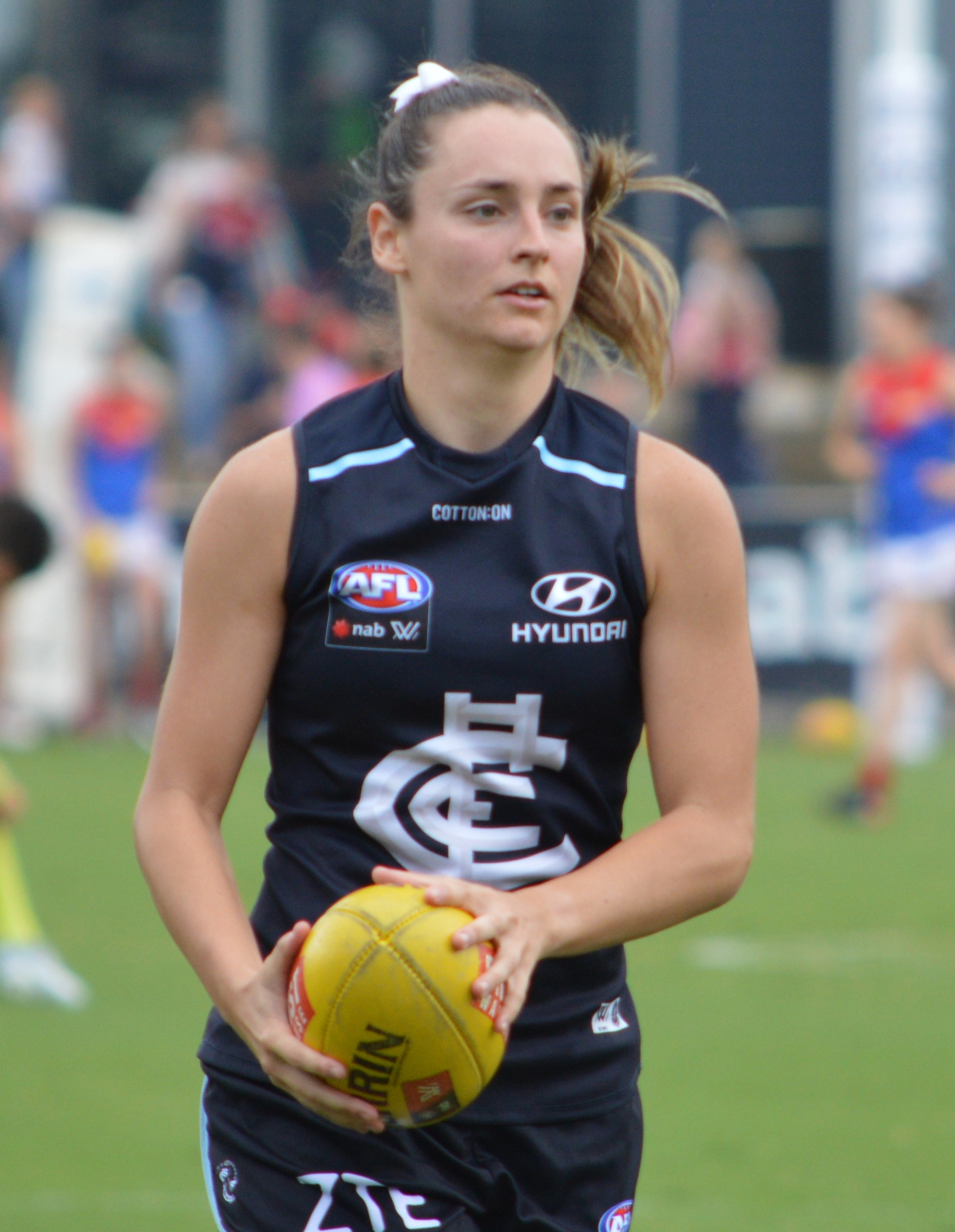 Nicola Stevens during the round 6, 2018 AFL Women's match between Carlton and Melbourne.